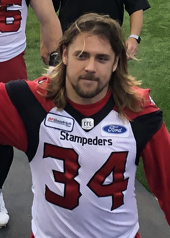 Ante Milanovic-Litre, running back and fullback for the Calgary Stampeders.